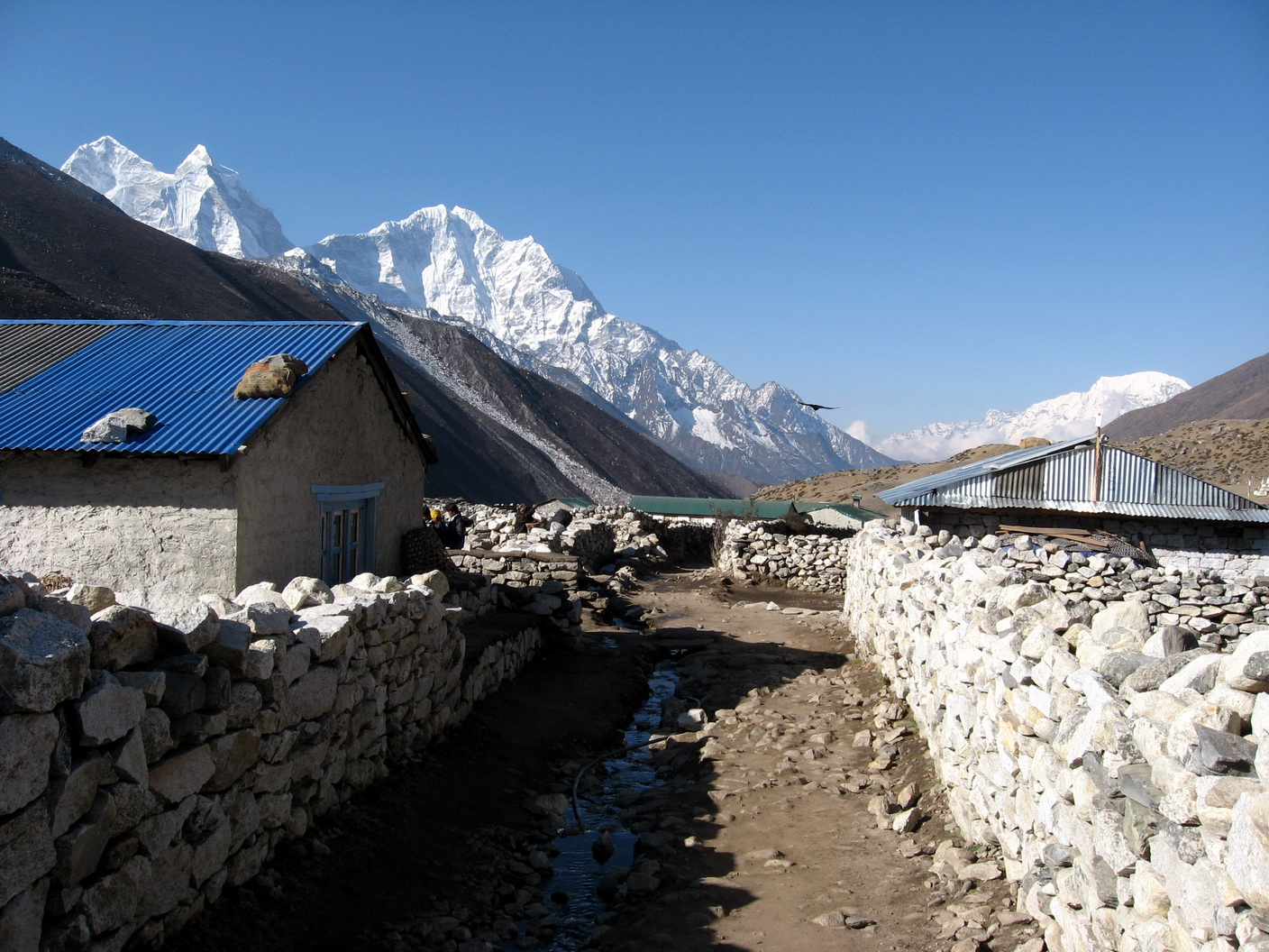 Stone walls in the Dingboche village.